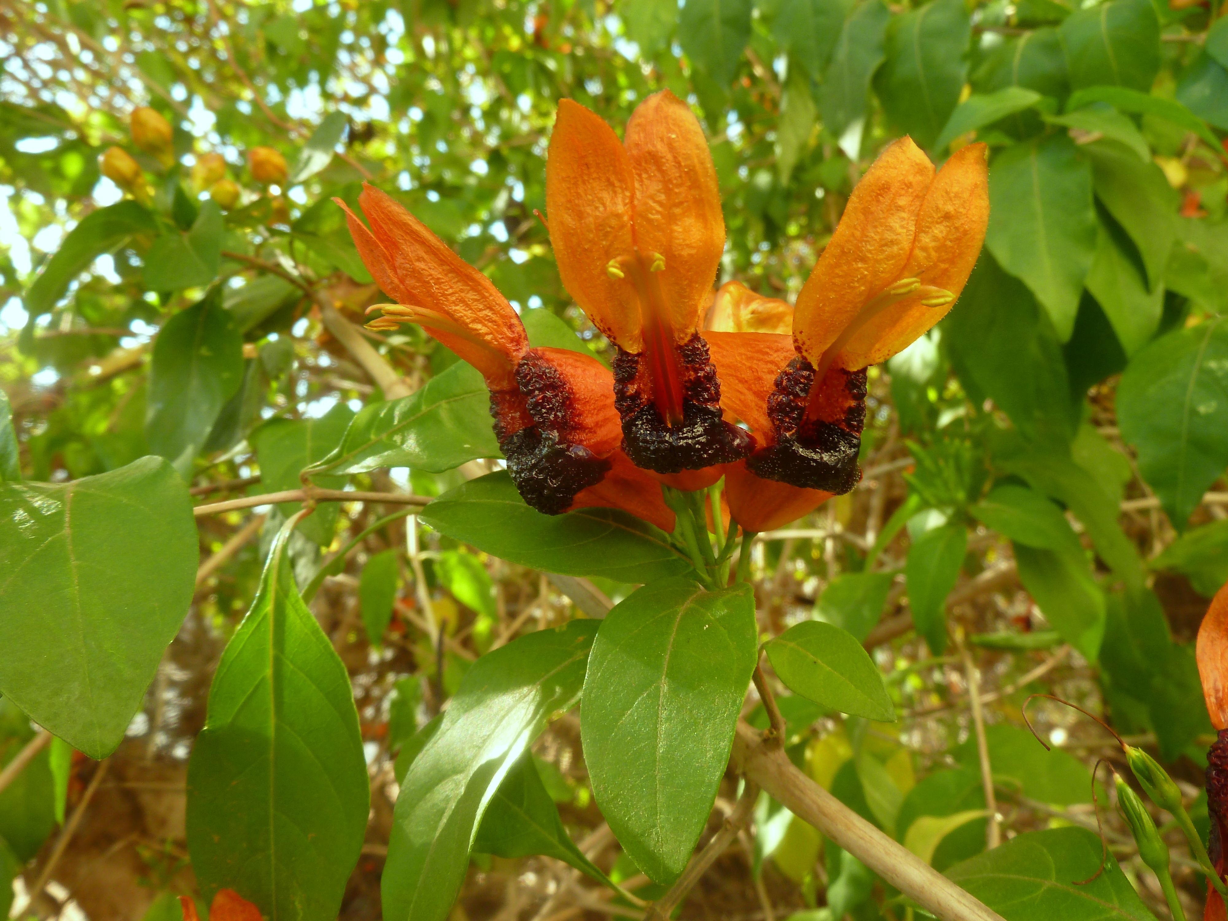 Flowers of a Jammy mouth in the Manie van der Schijff Botanical Garden at the University of Pretoria